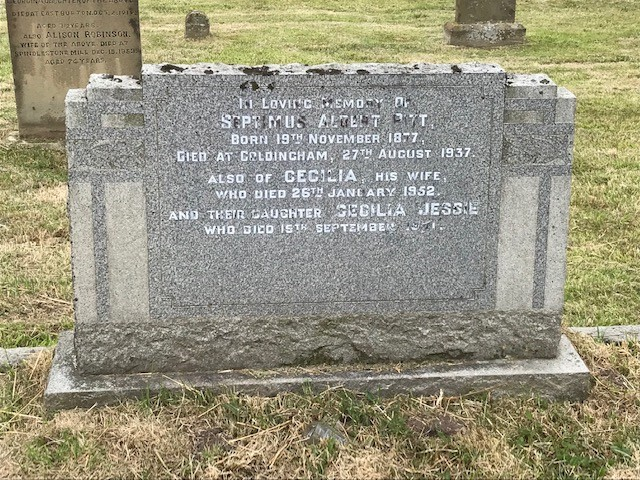 Grave of Septimus Albert Pitt, his wife Cecilia, and their daughter Cecilia Jessie, St. Aidan's Parish Church, Bamburgh